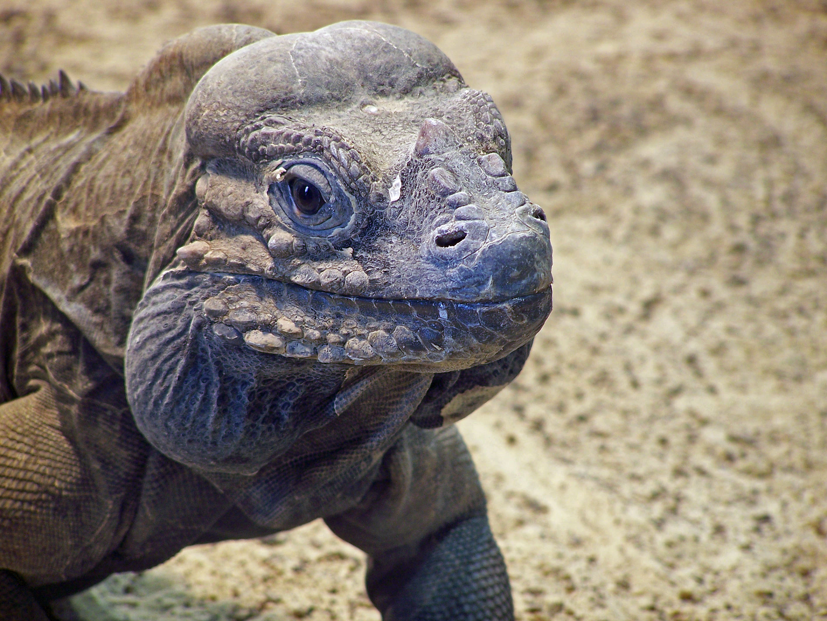 The Rhinoceros Iguana (Cyclura cornuta)